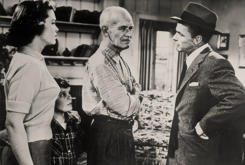 L. to R. : Nancy Gates, Kim Charney, James Gleason & Frank Sinatra in Suddenly - cropped screenshot